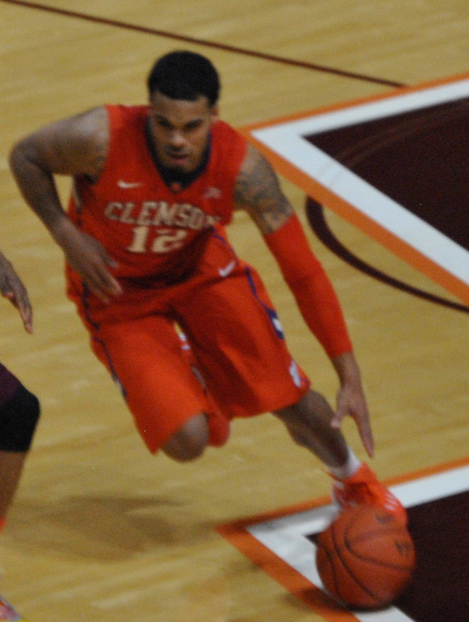 Avry Holmes moves past Jalen Hudson at Cassell Coliseum